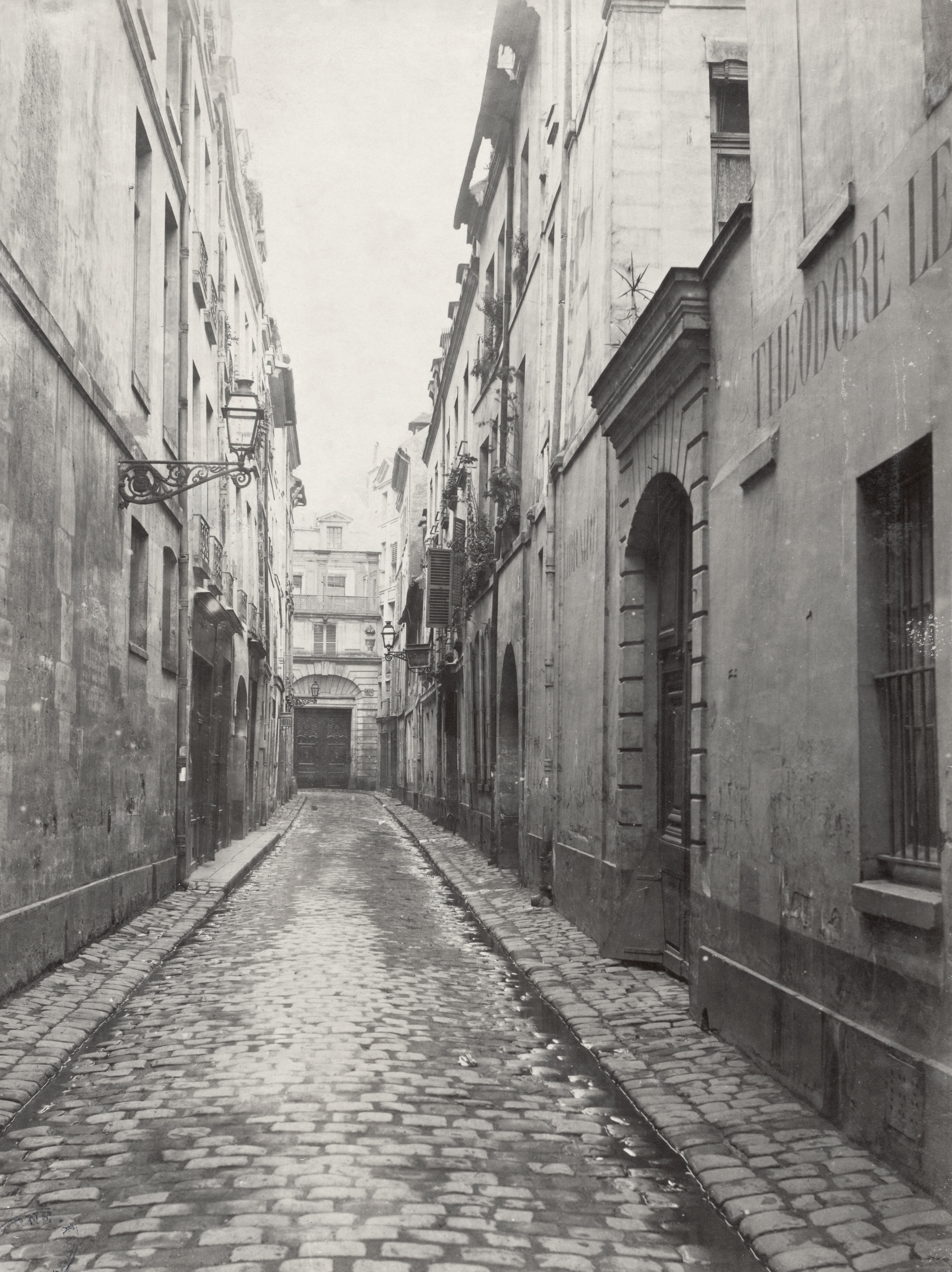 Looking along narrow street from the rue de Seine, flanked with buildings opening onto narrow paths.